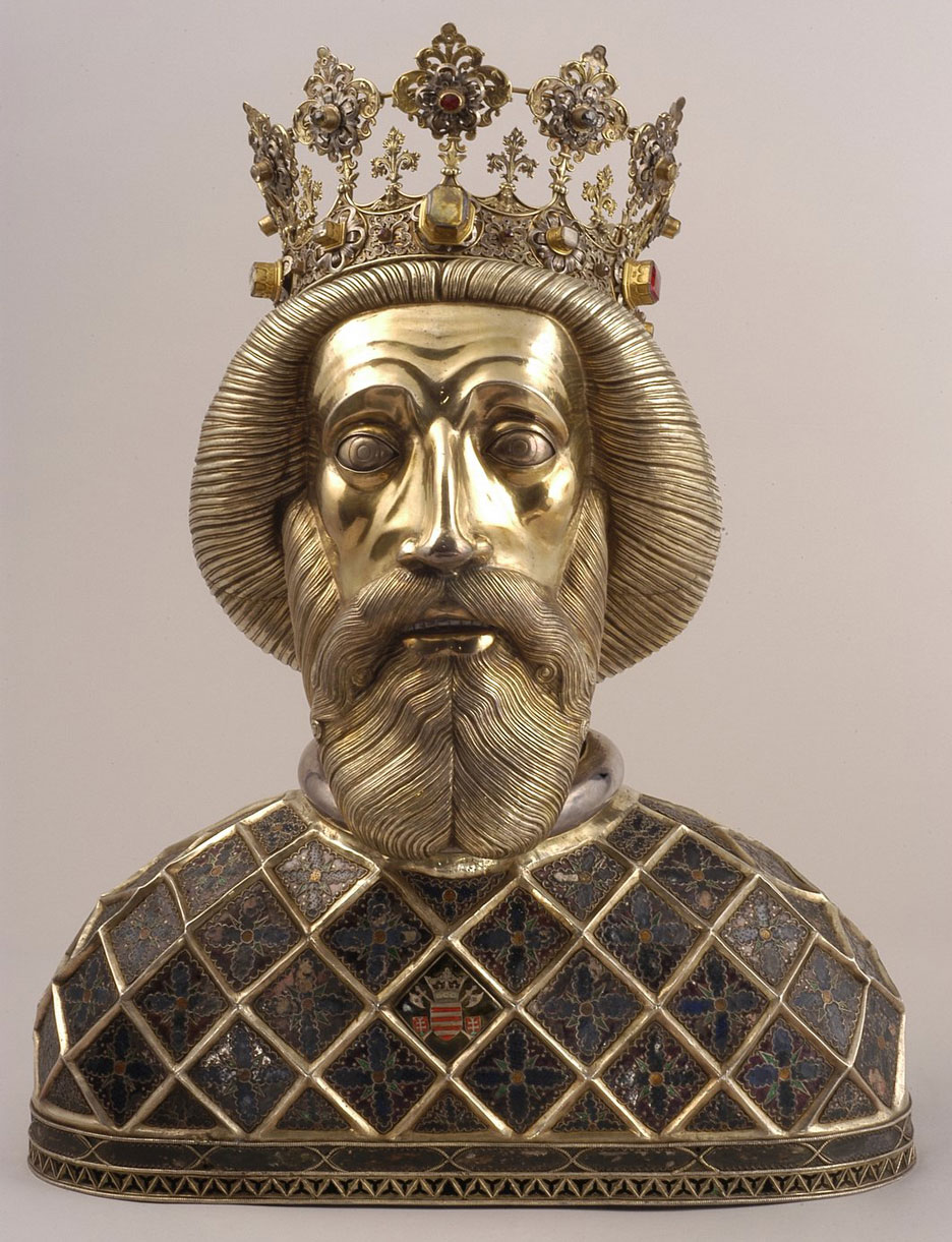 Reliquary,King Saint Ladislaus I of Hungary (c.1040–1095) XIV century